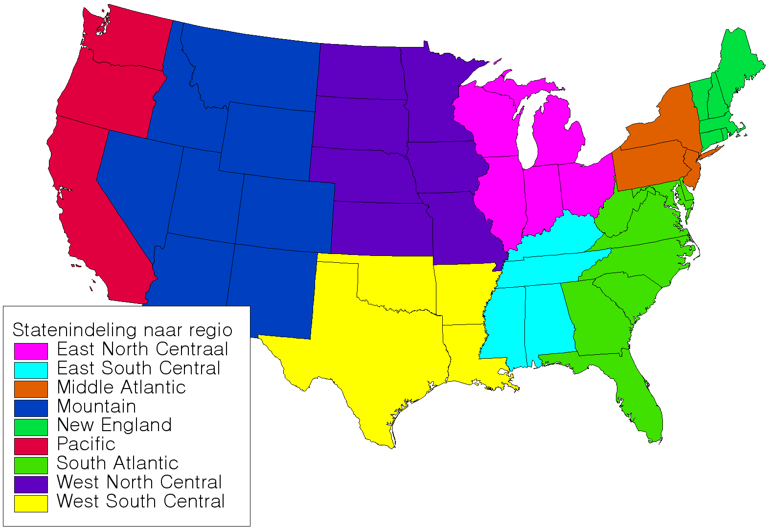 Map of regions of the United States.